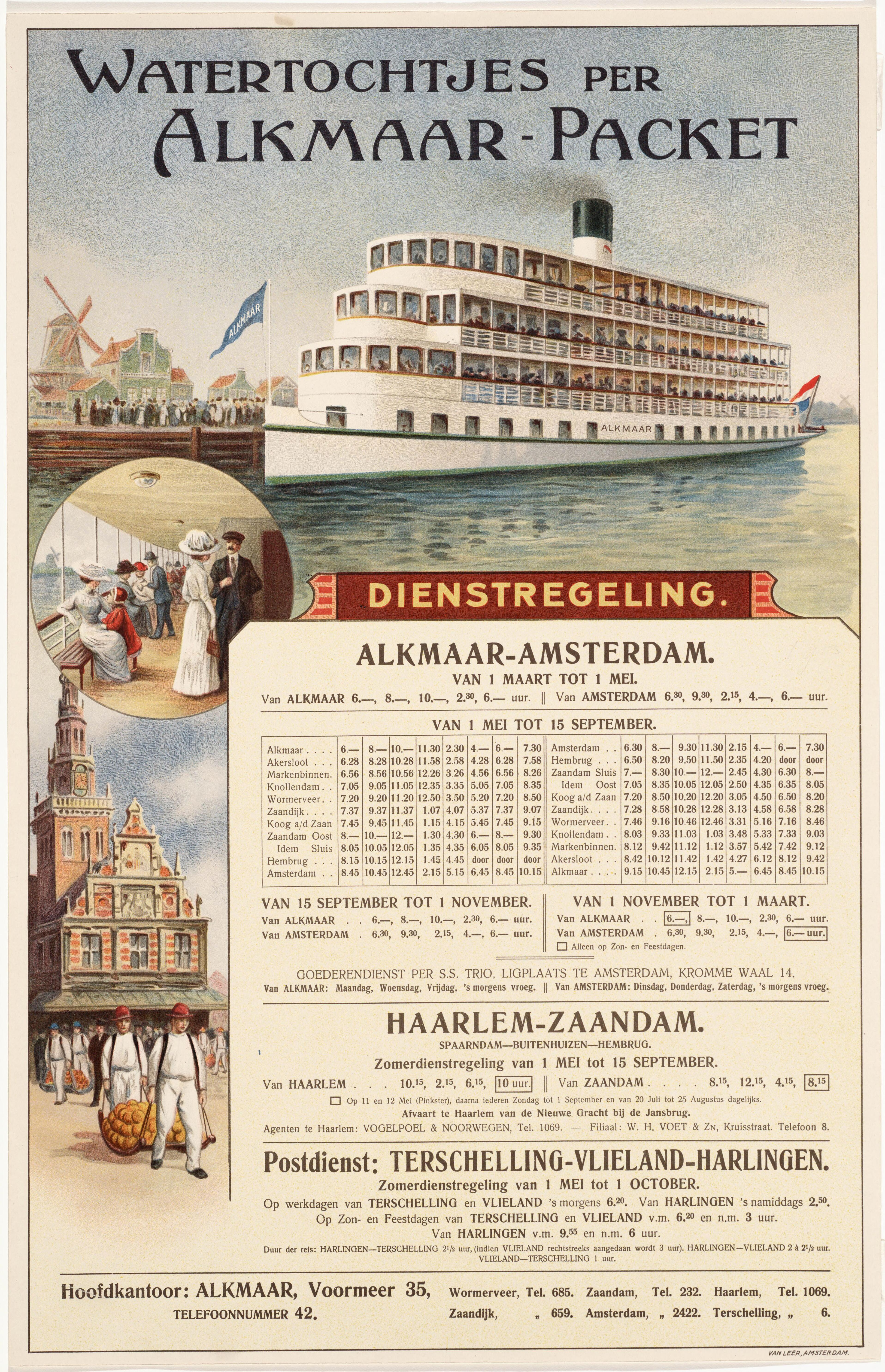 Timetable of the Alkmaar Packet shipping line, 1913